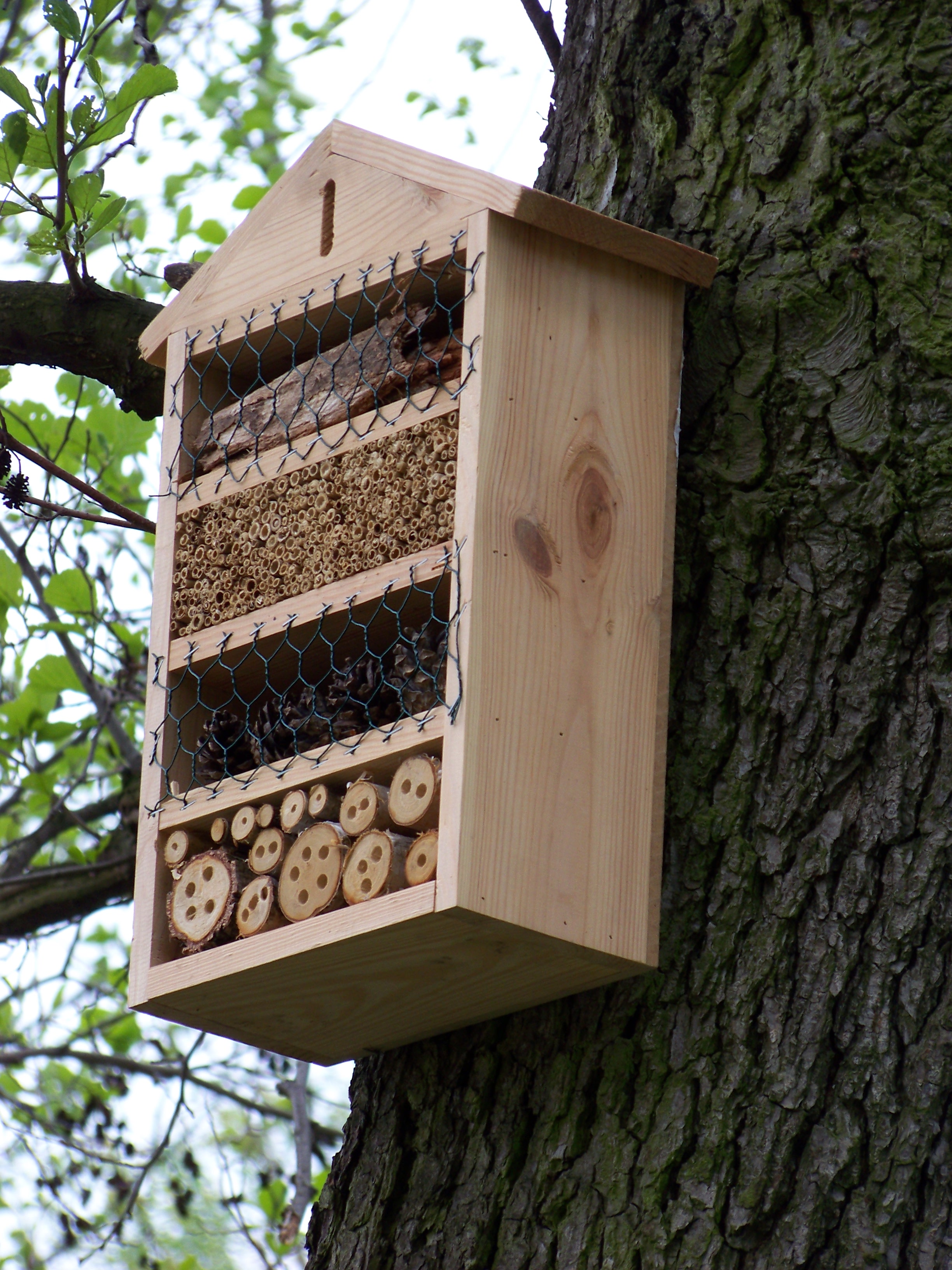 Prague-Újezd, Czech Republic. An insect hotel.